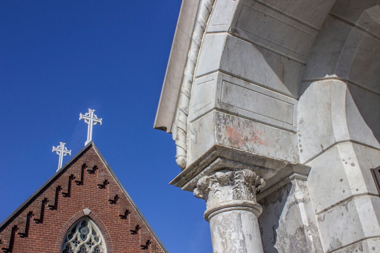 The mysterious red stains that appear on the marble of the Craigmiles Mausoleum.